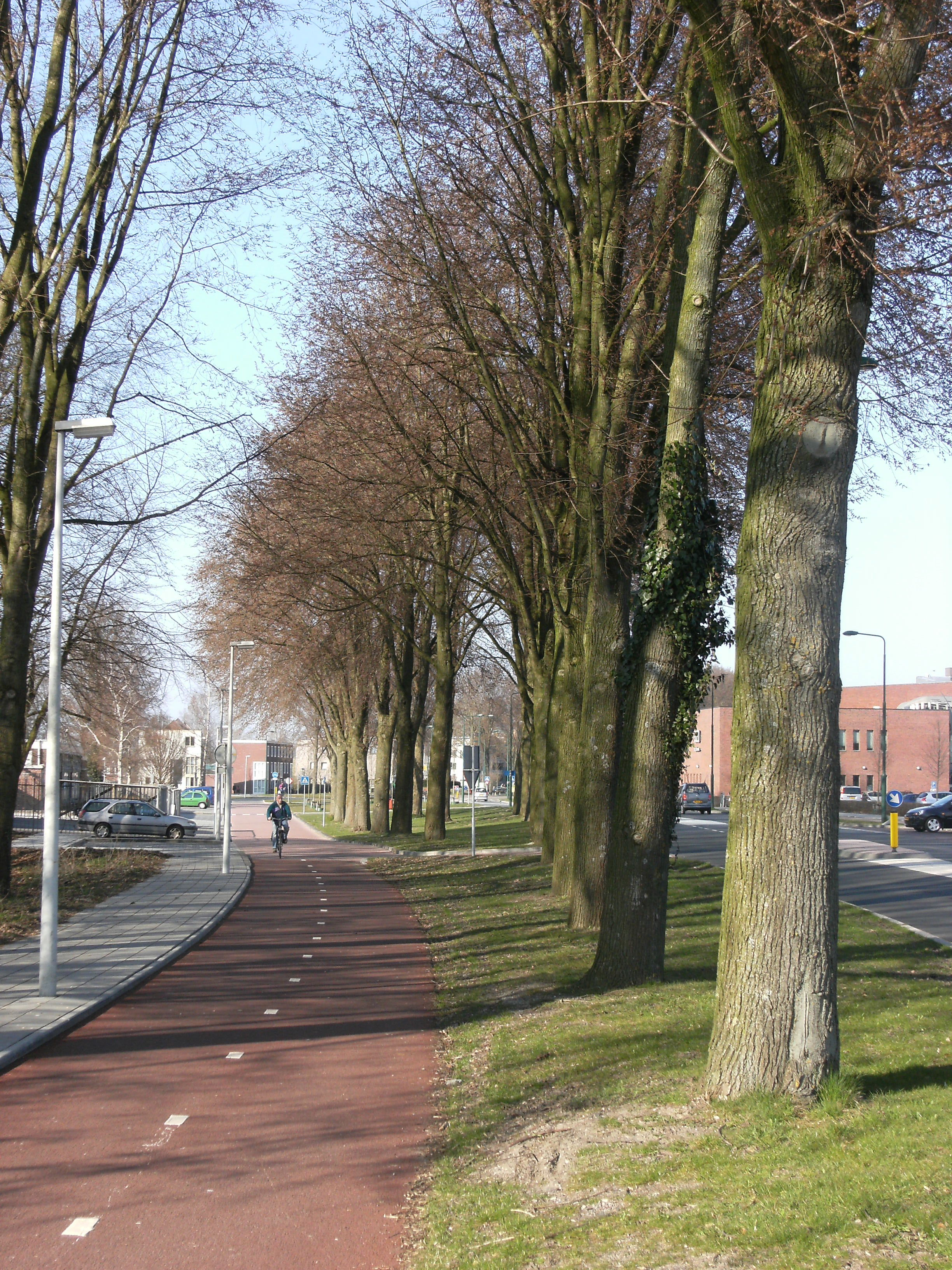 Bicycle lane Dronten.